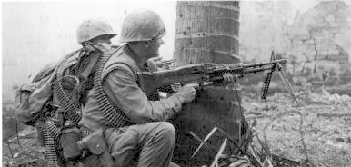 A Company C, 1st Battalion 5th Marines machine gunner, with his assistant close by, fires his M60 machine gun at an enemy position.